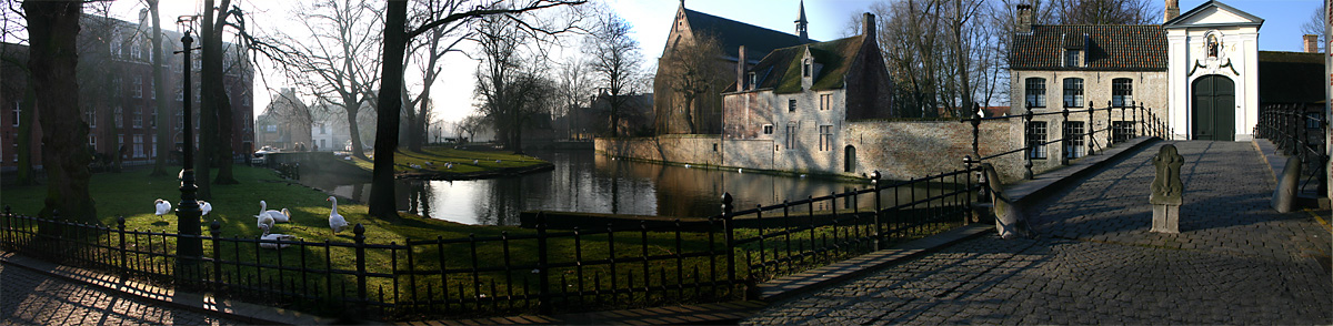 Panorama historical Beguine convent, Brügge, Belgium, from outside. Panoramic view of the neighbourhood of the beguinage during twilight; in the foreground the Wijngaard square with its swans and geese, and in the far background the Minnewaterpark.